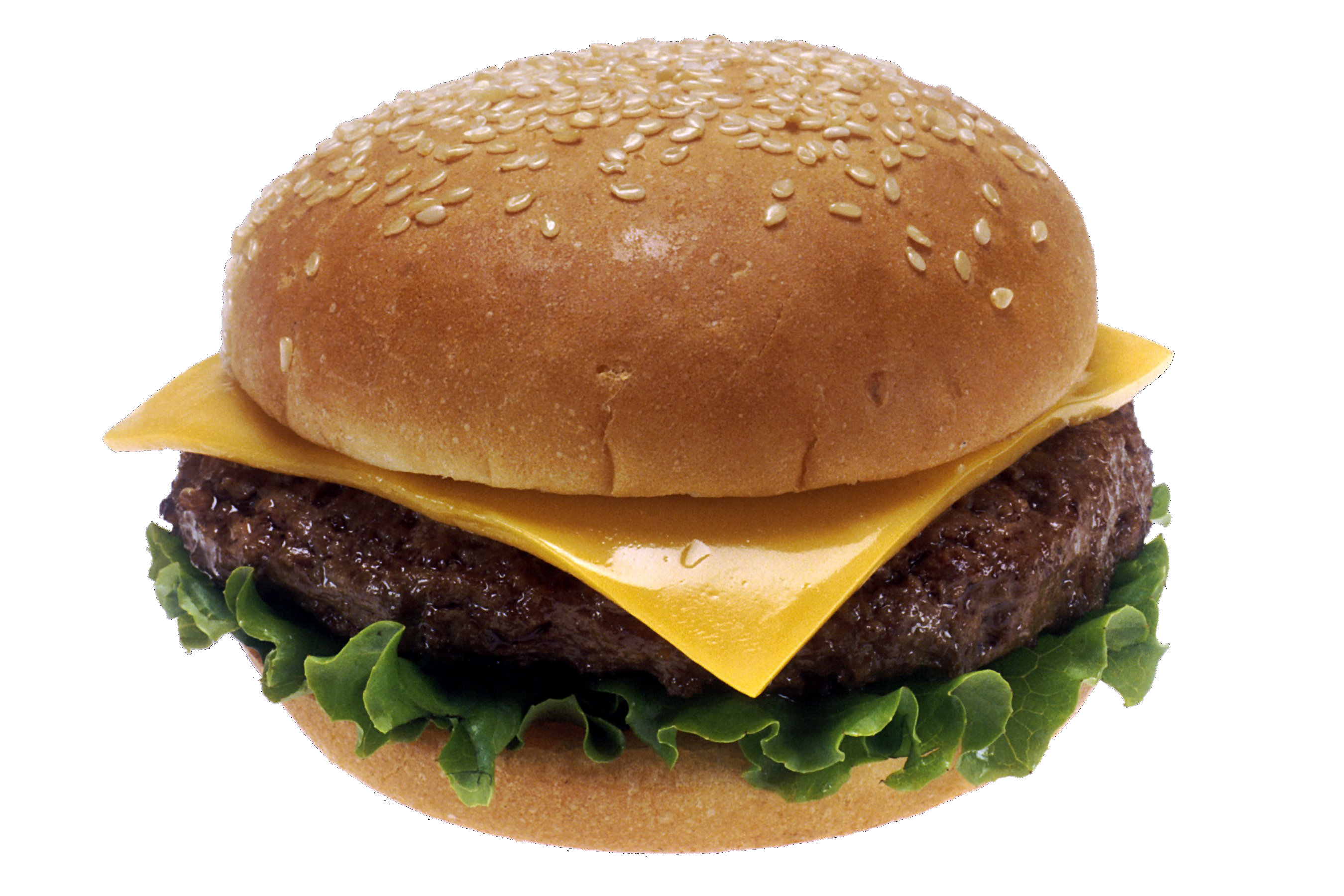 A cheeseburger.